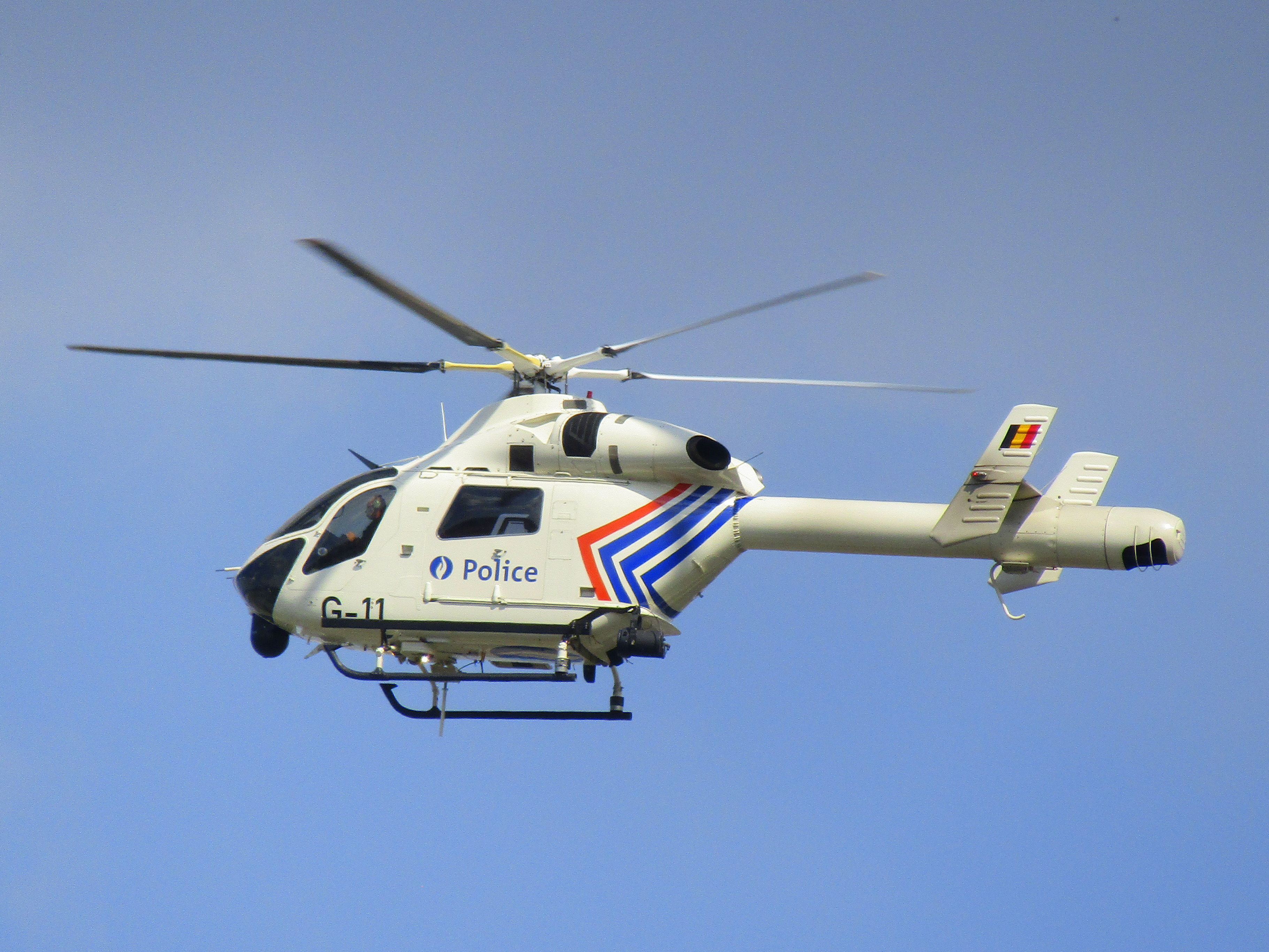 An MD 900 police helicopter over Brussels.